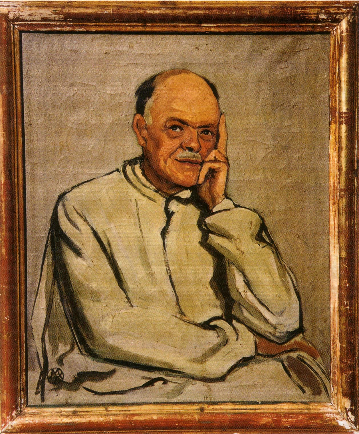 Portrait of Charles Nicolle, Director of the Pasteur Institute of Tunis, Nobel Prize for Medicine. This portrait is kept at the Pasteur Institute of Tunis.